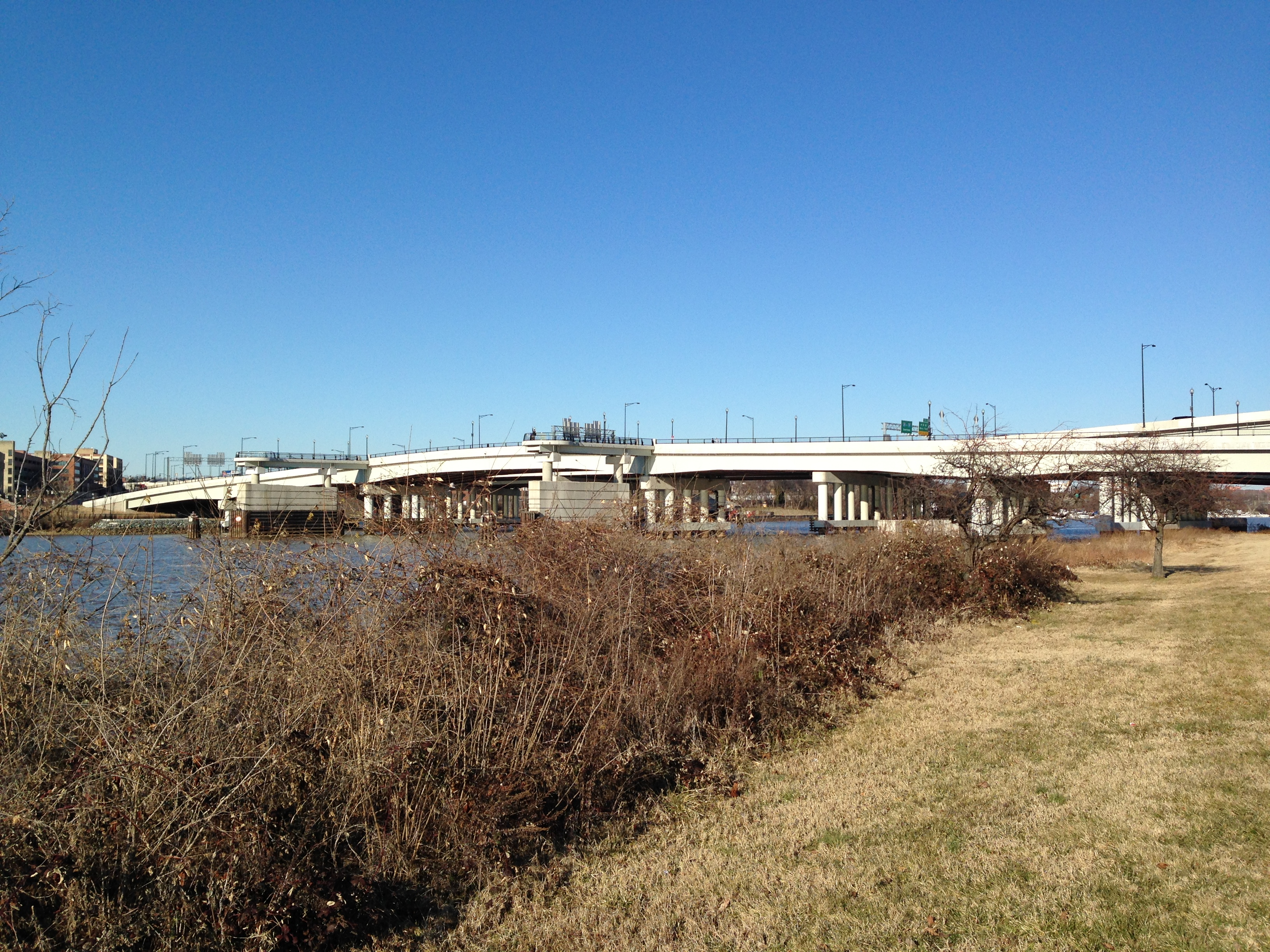 The 11th Street Bridges over the Anacostia River in Washington, DC in January 2015